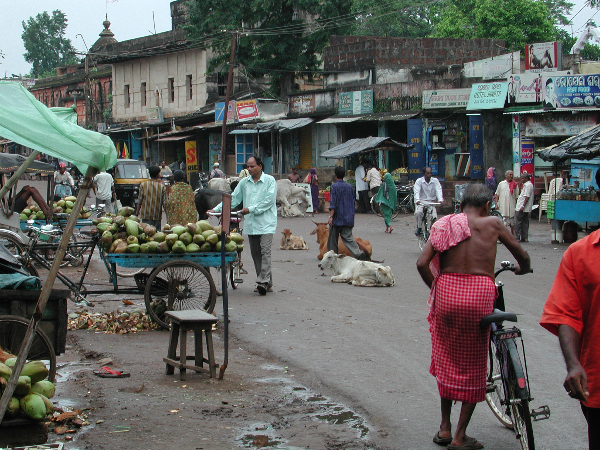 Sunday's street life in the temple district near the Lingaraja Temple in Bhubaneswar, Orissa, India.